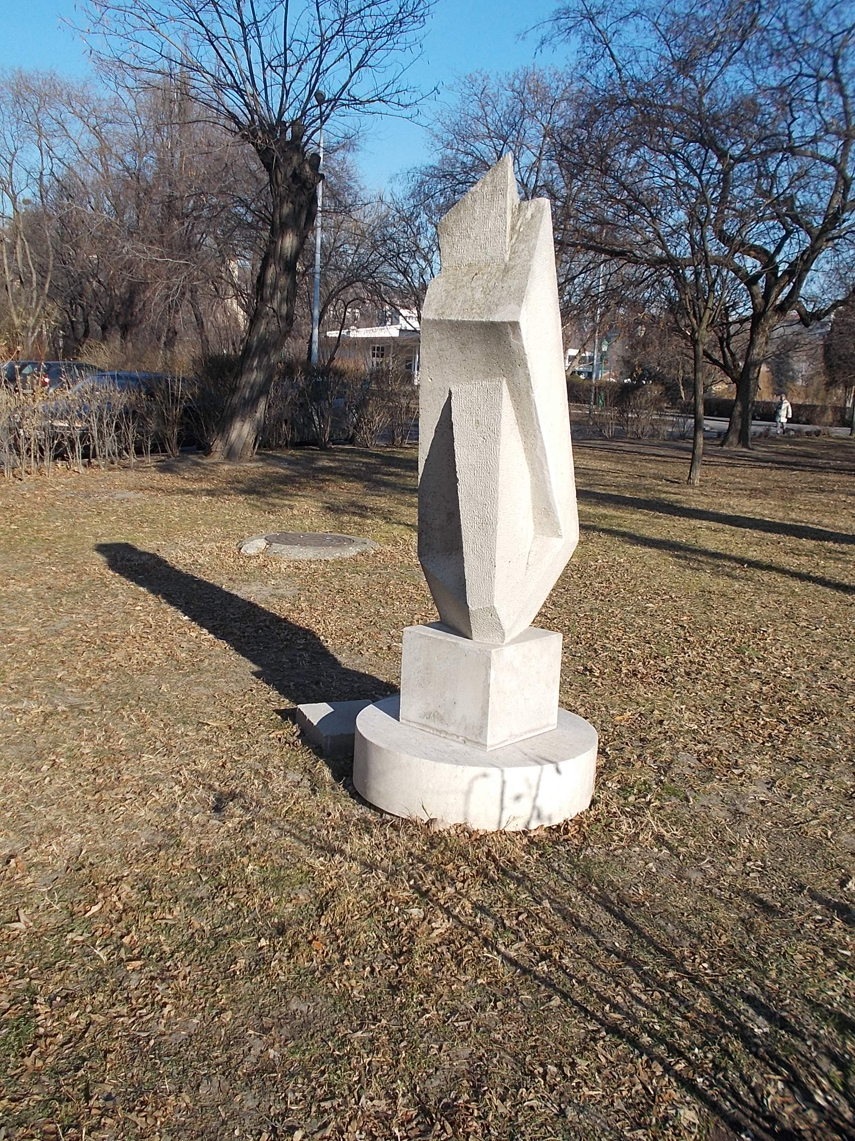 Bartók: Concerto at Kosztolányi Square, Budapest District IX, Budapest.